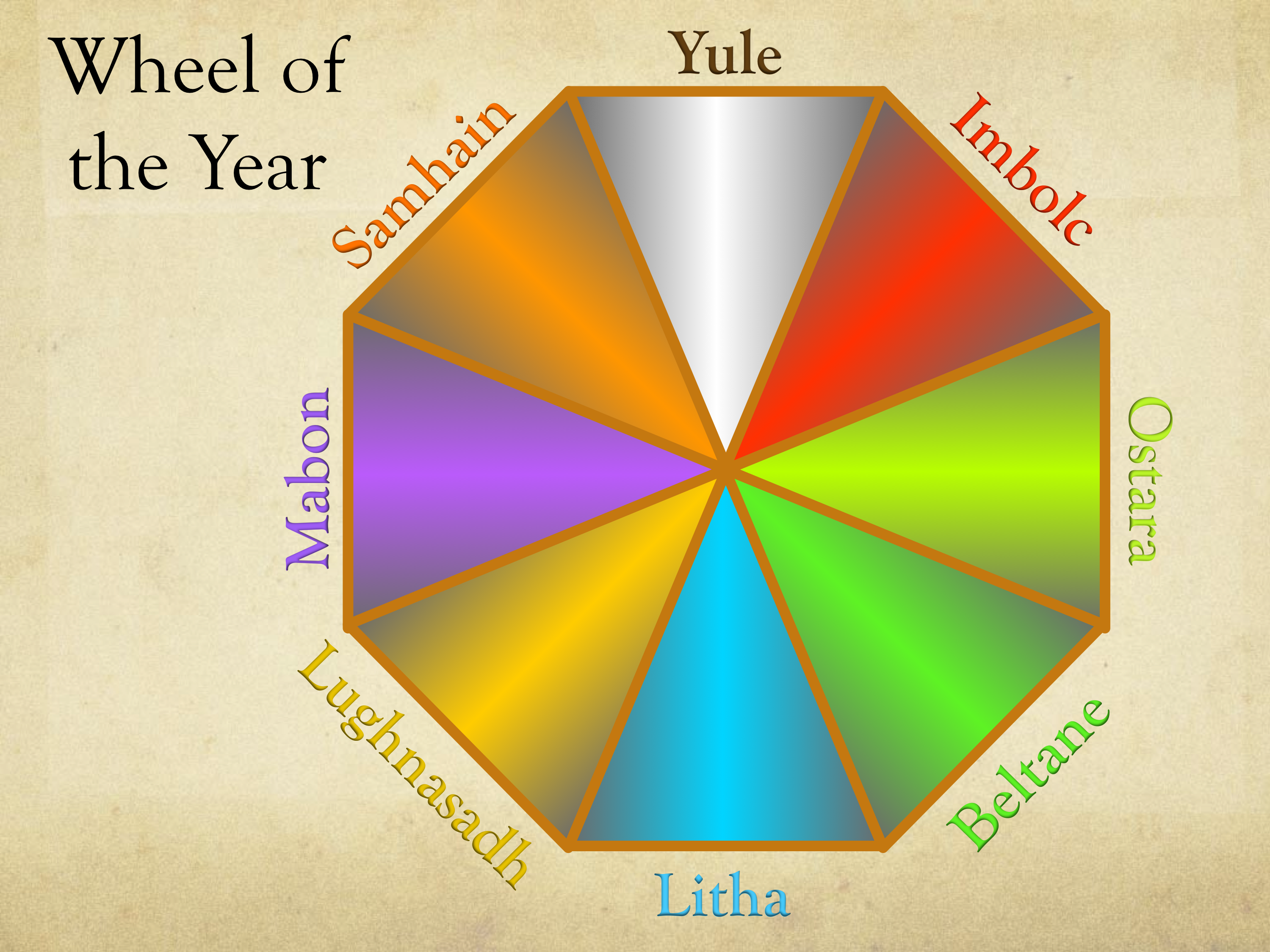 Wheel of the Year with Fire Festivals and Quarter Festivals, Neopagan holidays: Yule, Imbolc, Ostara, Beltane, Litha, Lughnasadh, Mabon, Samhain